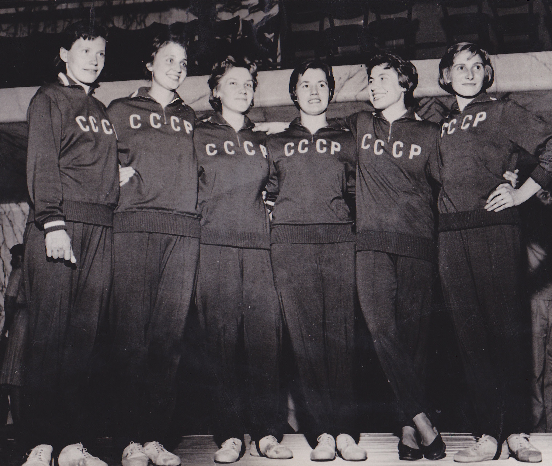 Soviet women's foil team at the 1960 Olympics. Left-right: Rastvorova, Gorohova, Petrenko-Samusenko, Zabelina/Shishova, Prudskova